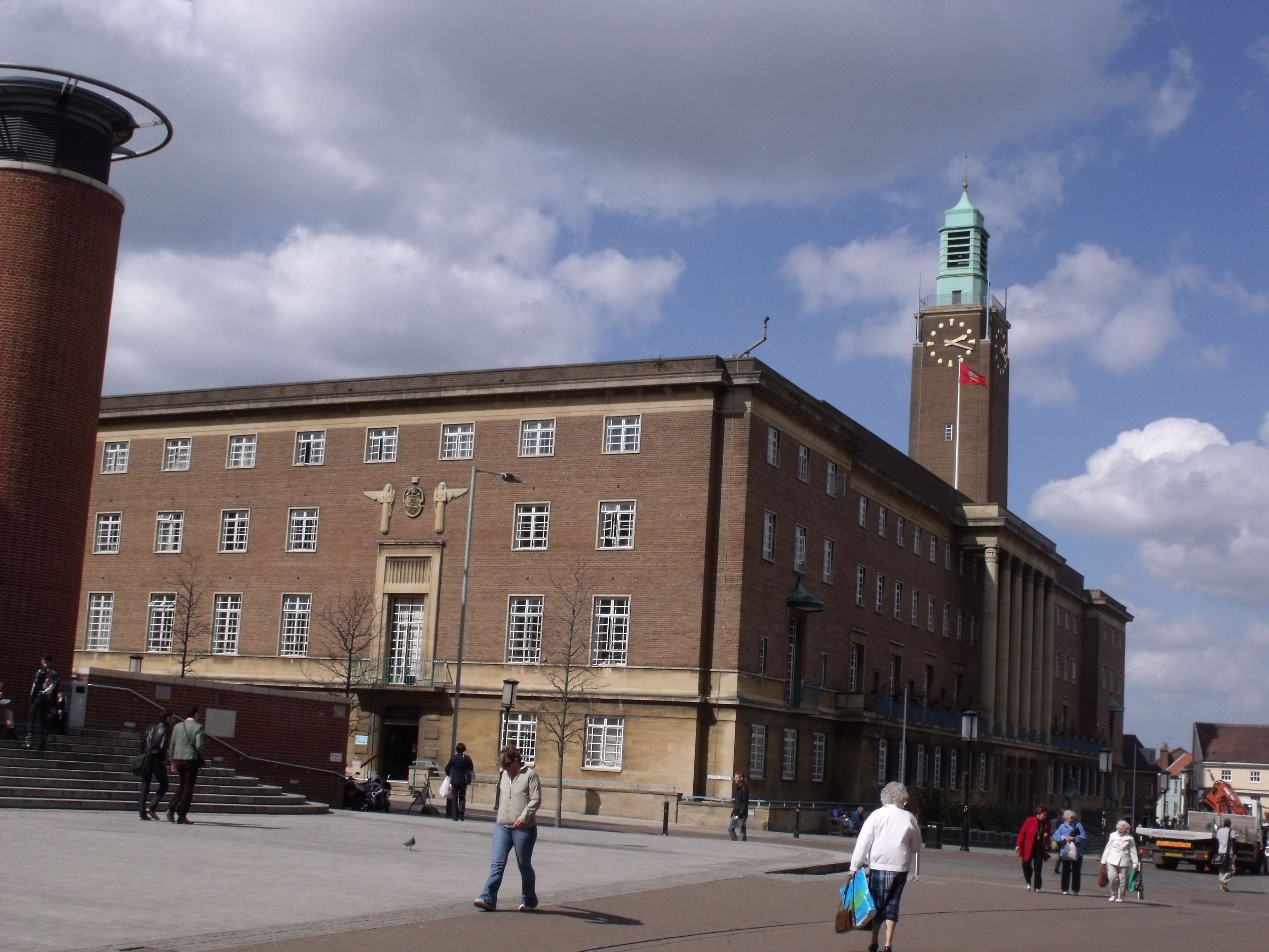 This is City Hall in Norwich. The home of Norwich City Council.